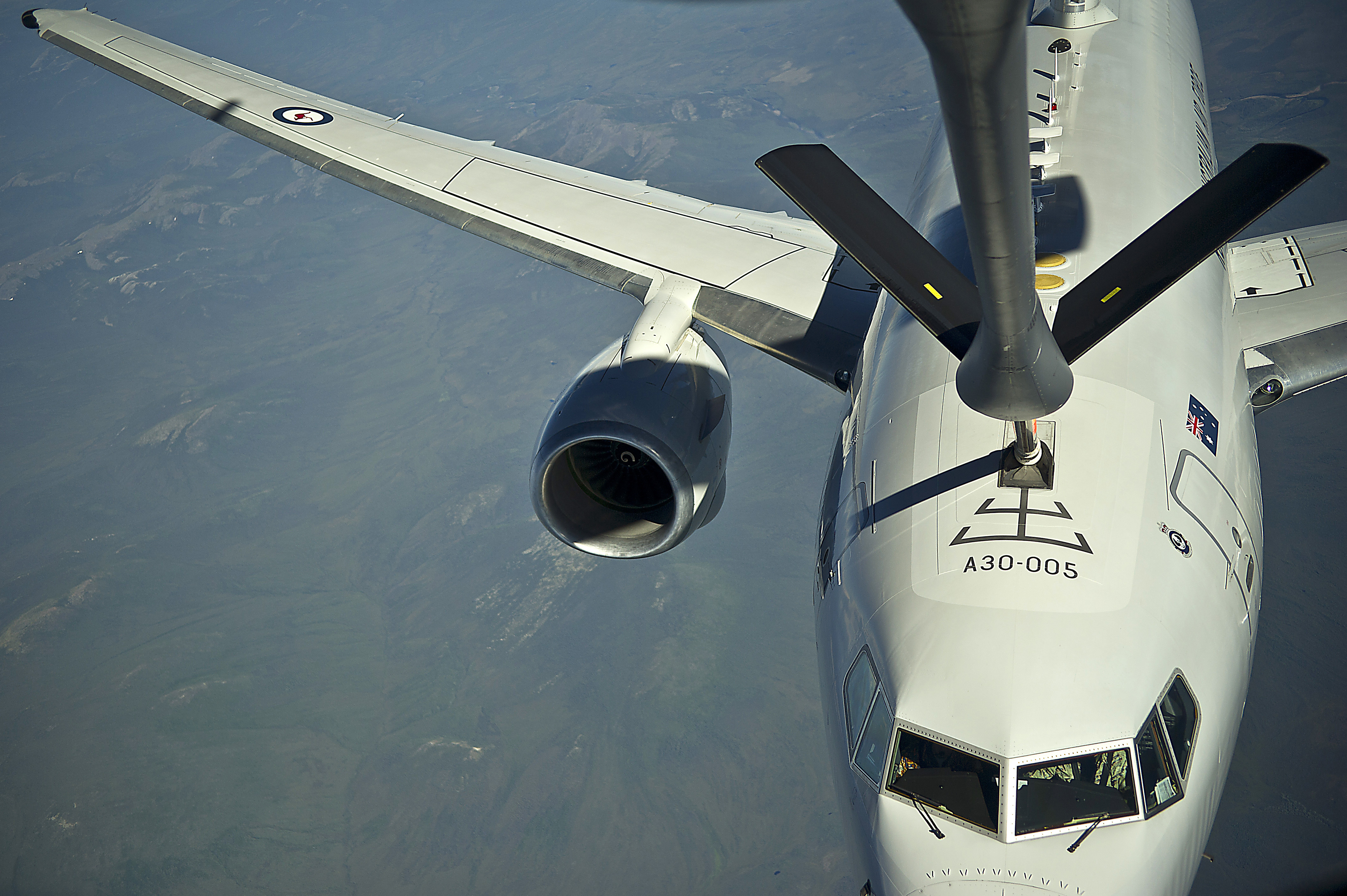 An Australian Air Force E-737 Wedgetail, Airborne Warning and Control System, receives fuel from a U.S. Air Force KC-135 Stratotanker from the 349th Air Refueling Squadron, McConnell Air Force Base, Kan., over the Joint Pacific Range Complex near Eielson Air Force Base, Alaska, June 20, 2012, during Red Flag-Alaska 12-2. Red Flag-Alaska is a Pacific Air Forces-sponsored, joint/coalition, tactical air combat employment exercise which corresponds to the operational capability of participating units. The entire exercise takes place in the Joint Pacific Range Complex over Alaska as well as a portion of Western Canada for a total airspace of more than 67,000 square miles.